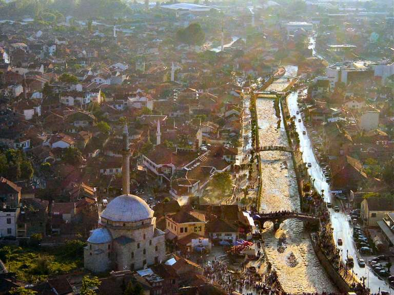 View of Prizen with the main mosque in front. Picture taken when i was traveling in the balkans. More pictures from my travel in Kosovo (and Macedonia) can be found here